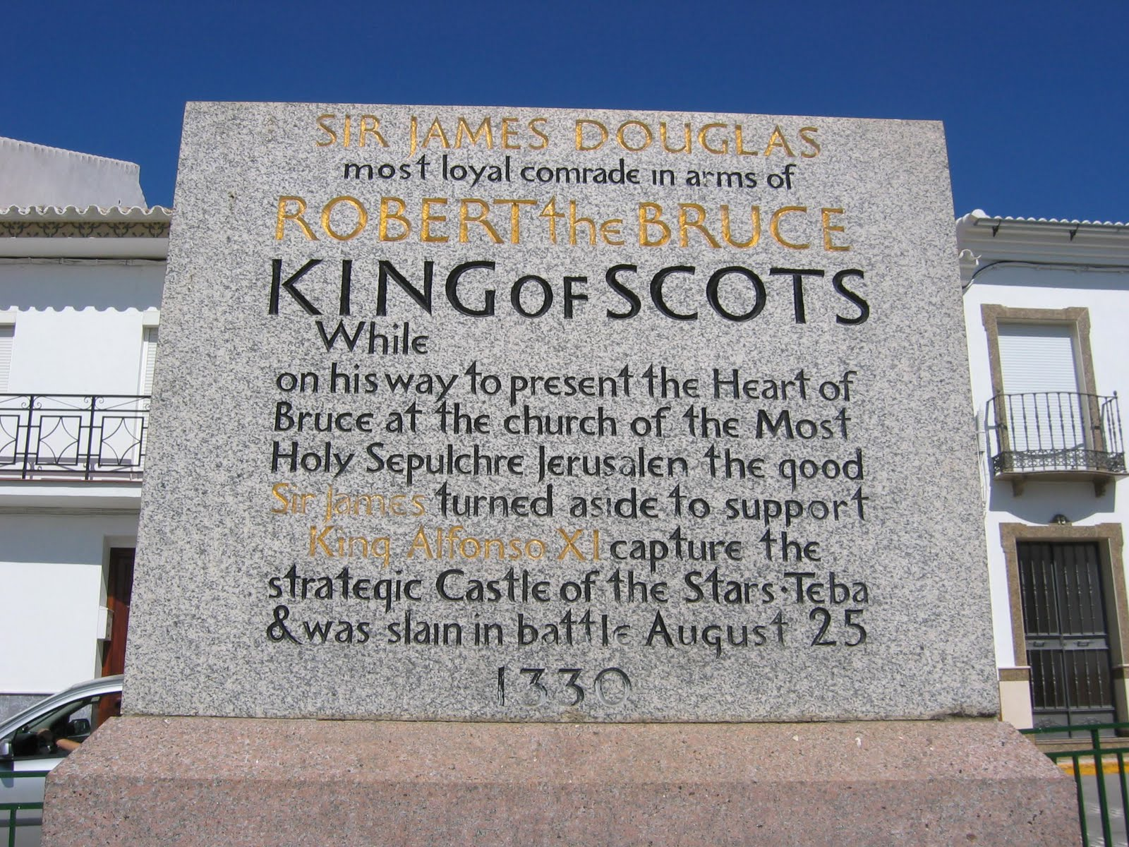 Memorial stone in Plaza de España, Teba (Malaga), Spain, placed by the Douglas family in honour of James Douglas who died fighting the Moors during the siege of Teba in 1330.